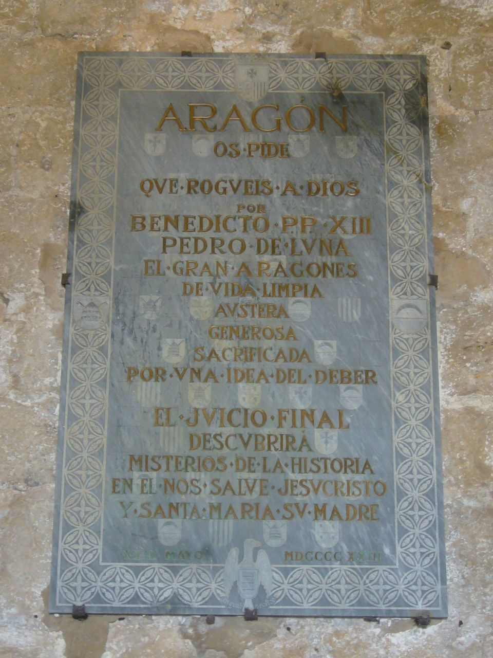 Plaque of Aragon to Antipope Benedict XIII. Picture taken in the castle of Peñíscola